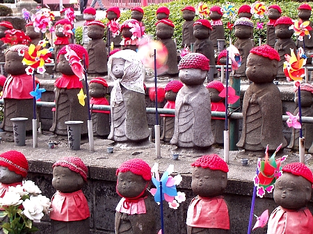 Jizo； a guardian deity of children Temple Zojo in Tokyo,Japan